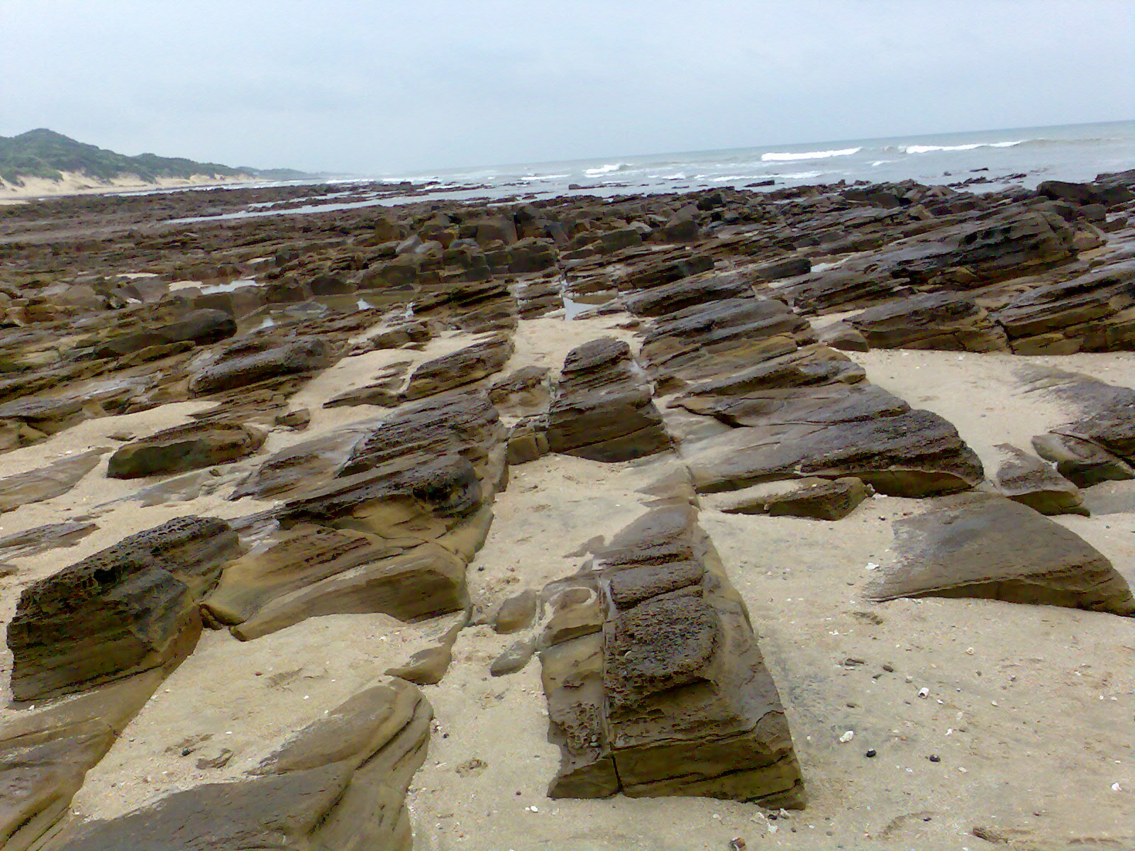 Rocks at Sunrise-on-Sea, Eastern Cape. The triangular patches of sand and water indicate sea-level.